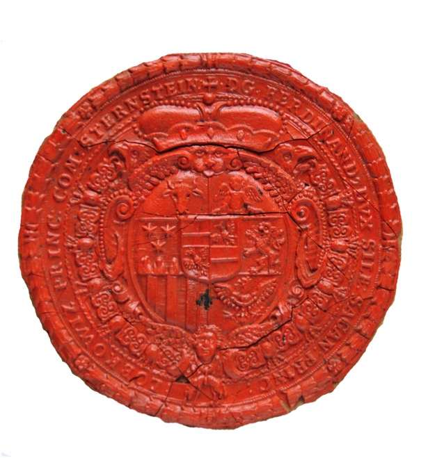 Czech nobleman and diplomat 1655-1715, winner of the Golden Fleece